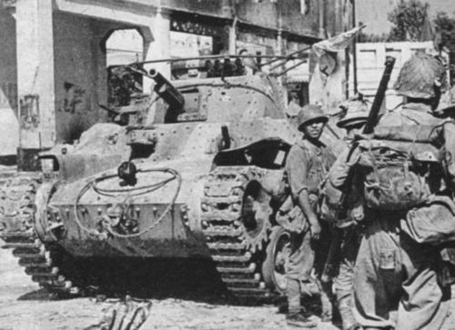 Japanese troops during the battle of Bukit Timah